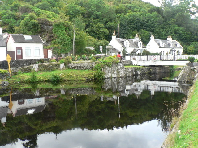 Bellanoch: canal reflections Looking across the Crinan Canal, the 915984 on the right.